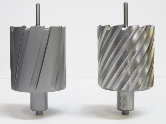 Annular Cutter / Core Drill. Left: TCT core drill and Right: HSS core drill.